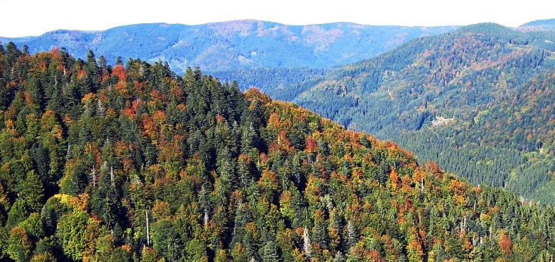 Obereck (Black Forest, Germany) seen from above Simonswald